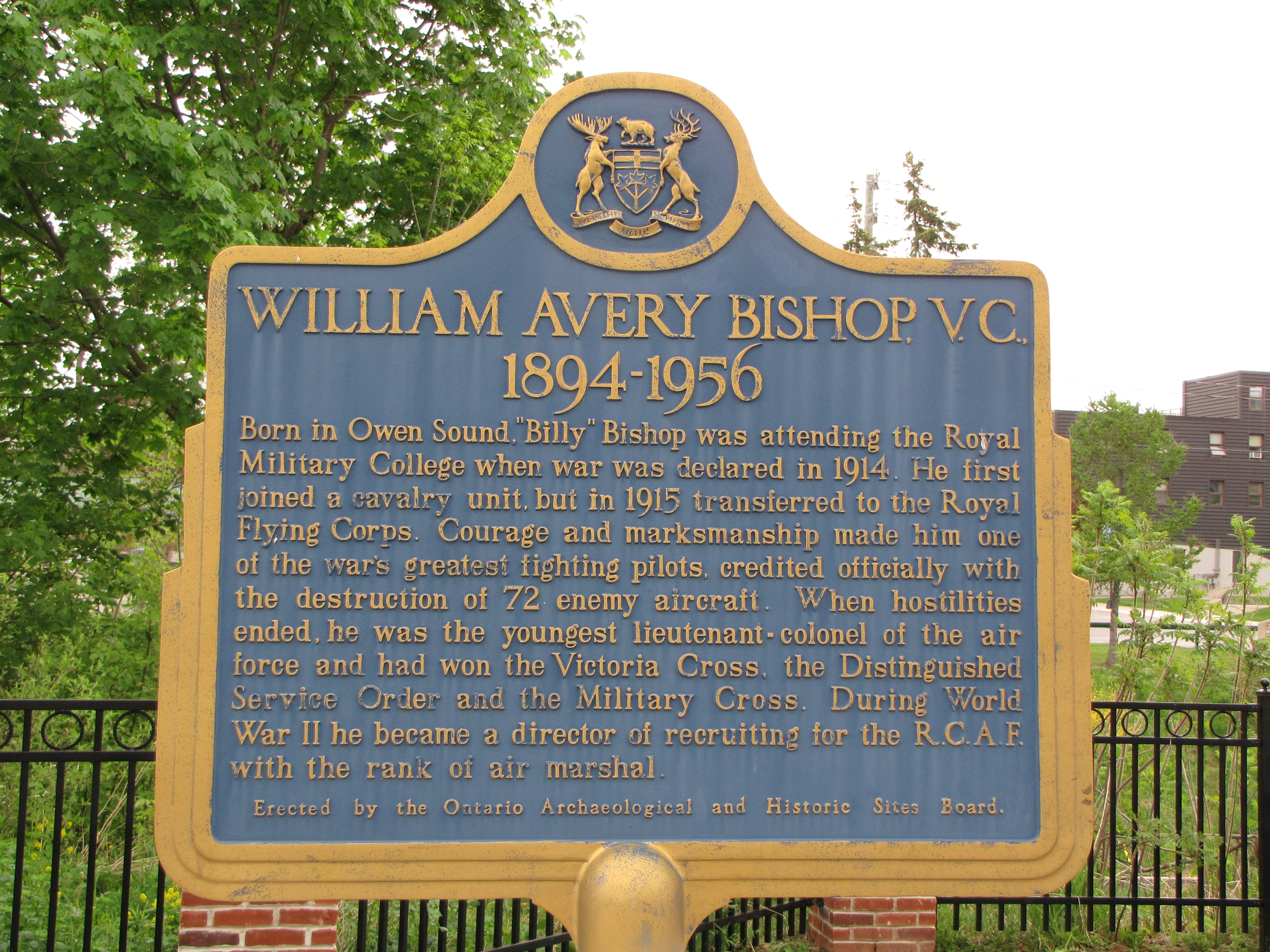 Commemorative plaque honoring Billy Bishop, downtown Owen Sound.